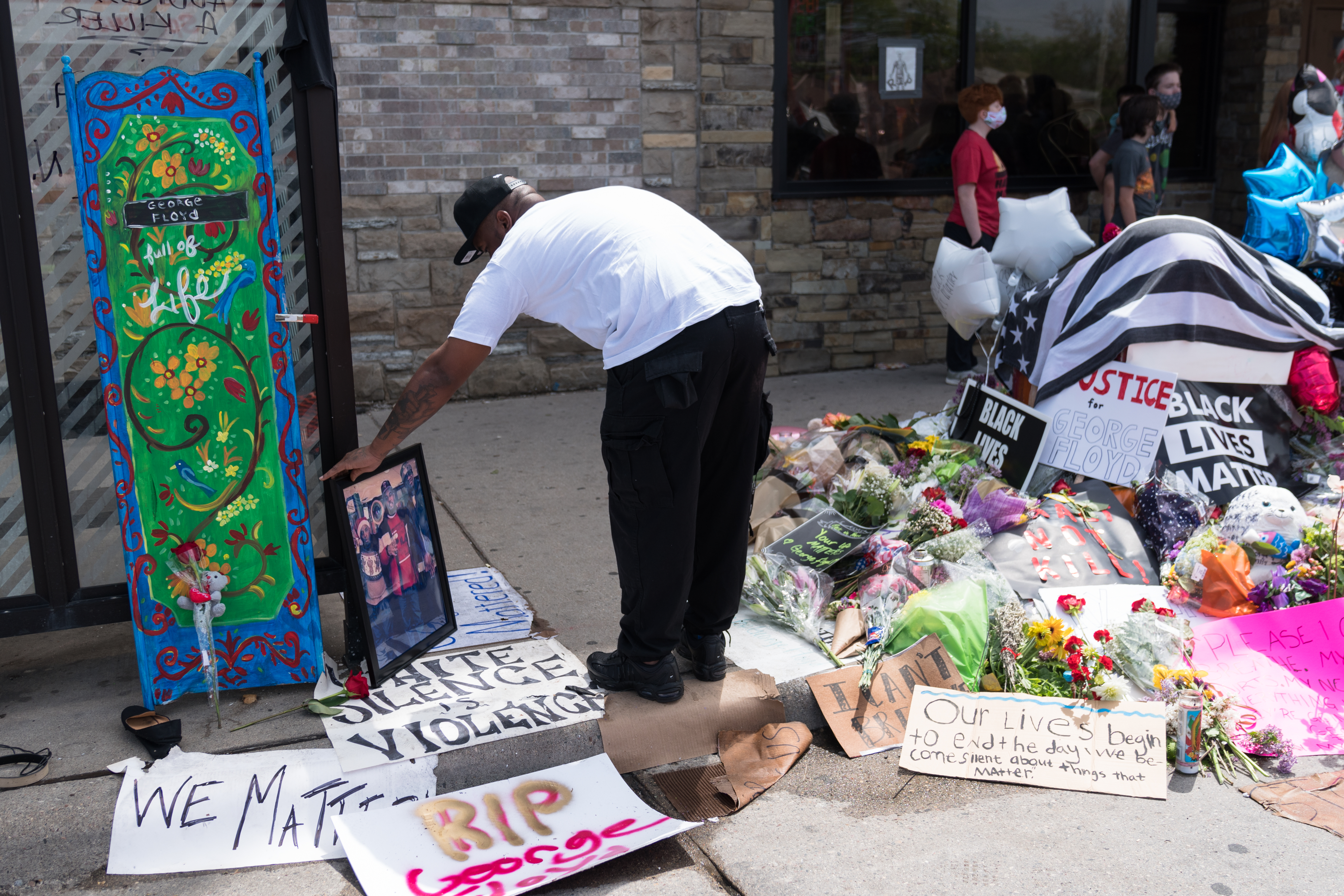 A man leaves a photograph at a memorial for George Floyd on Wednesday afternoon, after the death of Floyd on Monday night in Minneapolis, Minnesota. Photograph by Lorie Shaull if used elsewhere.